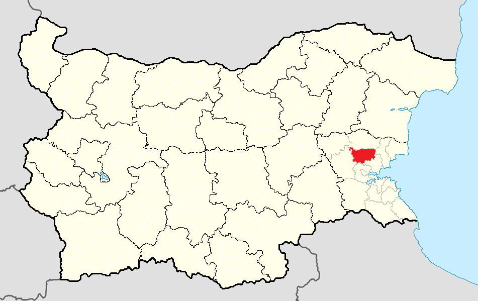 Location map of Aytos Municipality within Bulgaria and Burgas Province Equirectangular projection, N/S stretching 130 %. Geographic limits of the map: N: 44.4° N S: 41.1° N W: 22.1° E E: 28.9° E